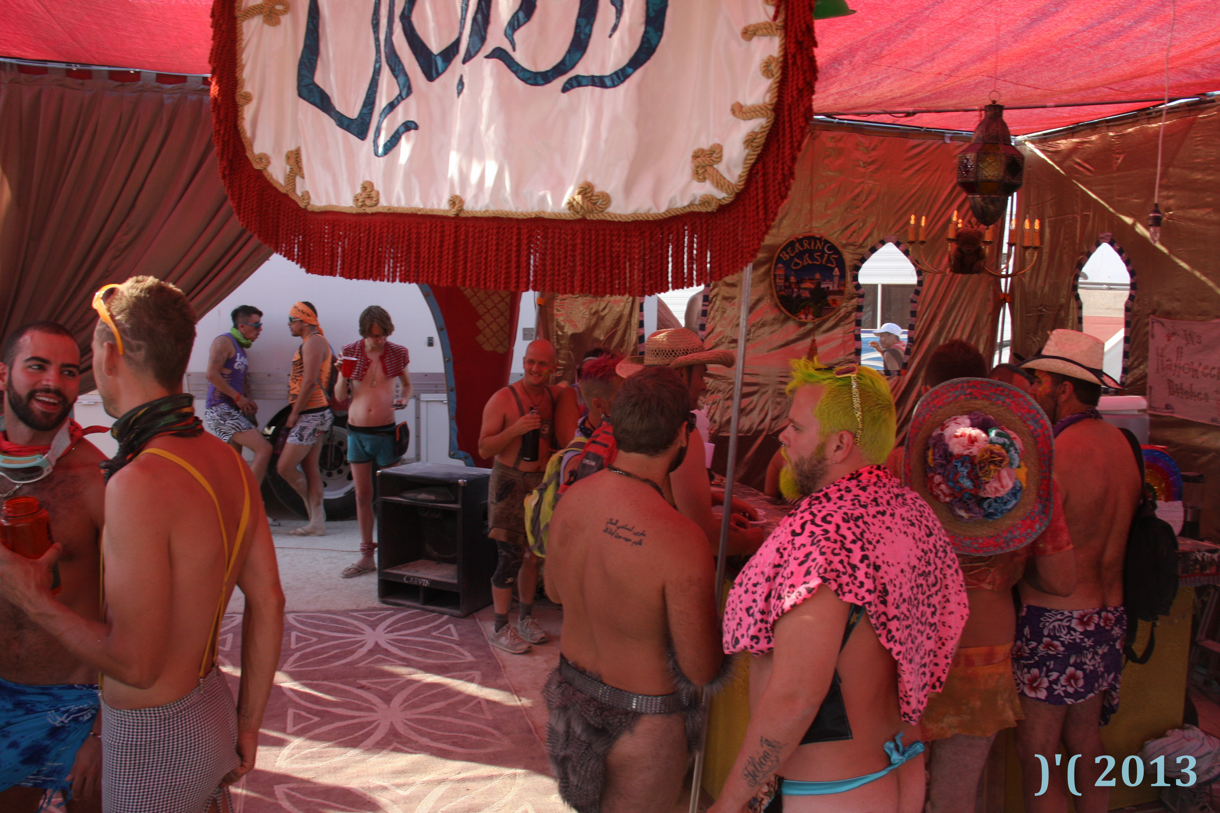 Scenes from the 2013 Burning Man festival.